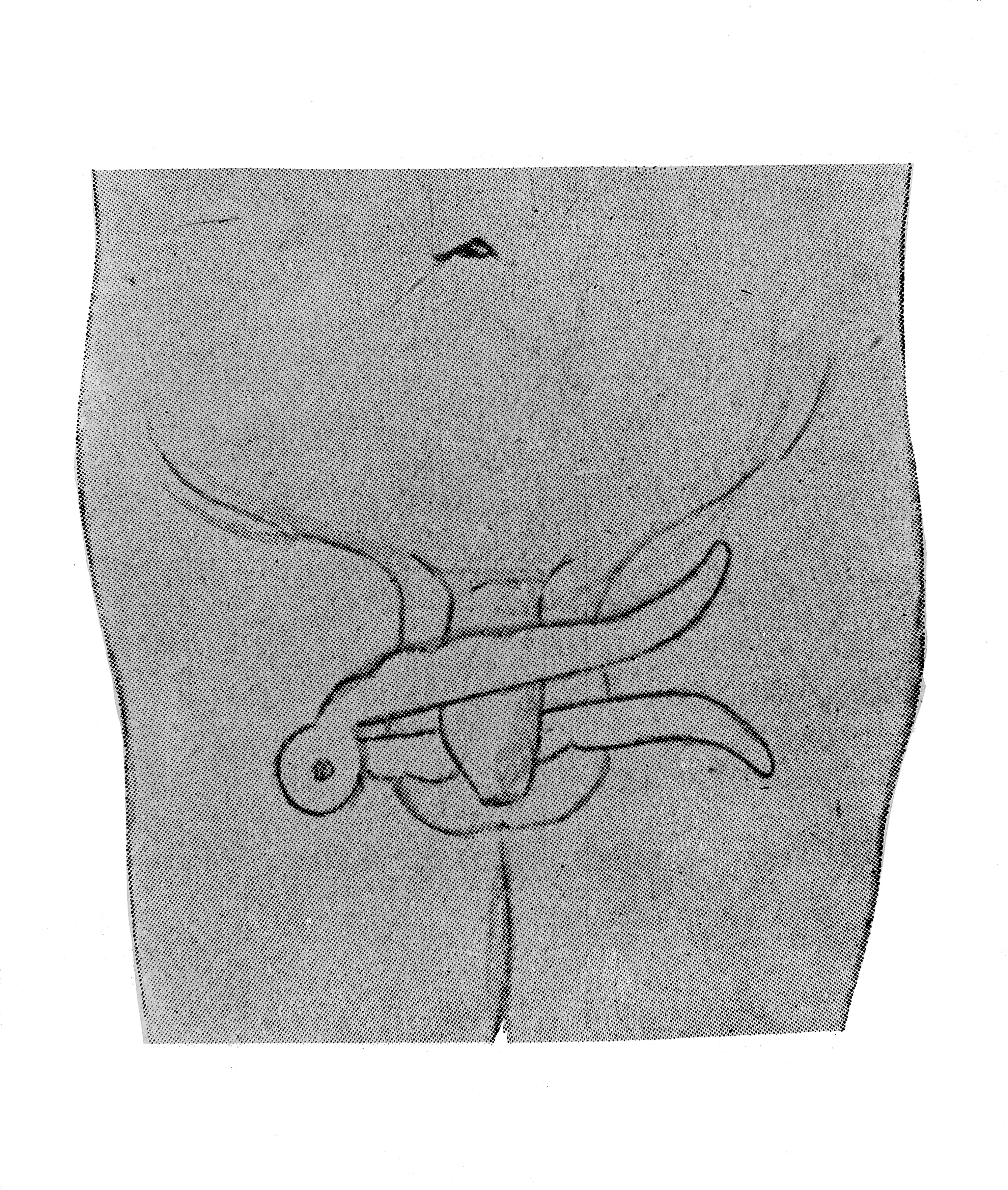 El-Lazien in situ: clamp used during Kordajan circumcision. Anglo Egyptian, Sudan. The clamp serves to hold the prepuce and exclude the glans during circumcision Wellcome Images Keywords: non-european cultures; ancient medicine; Ethnography